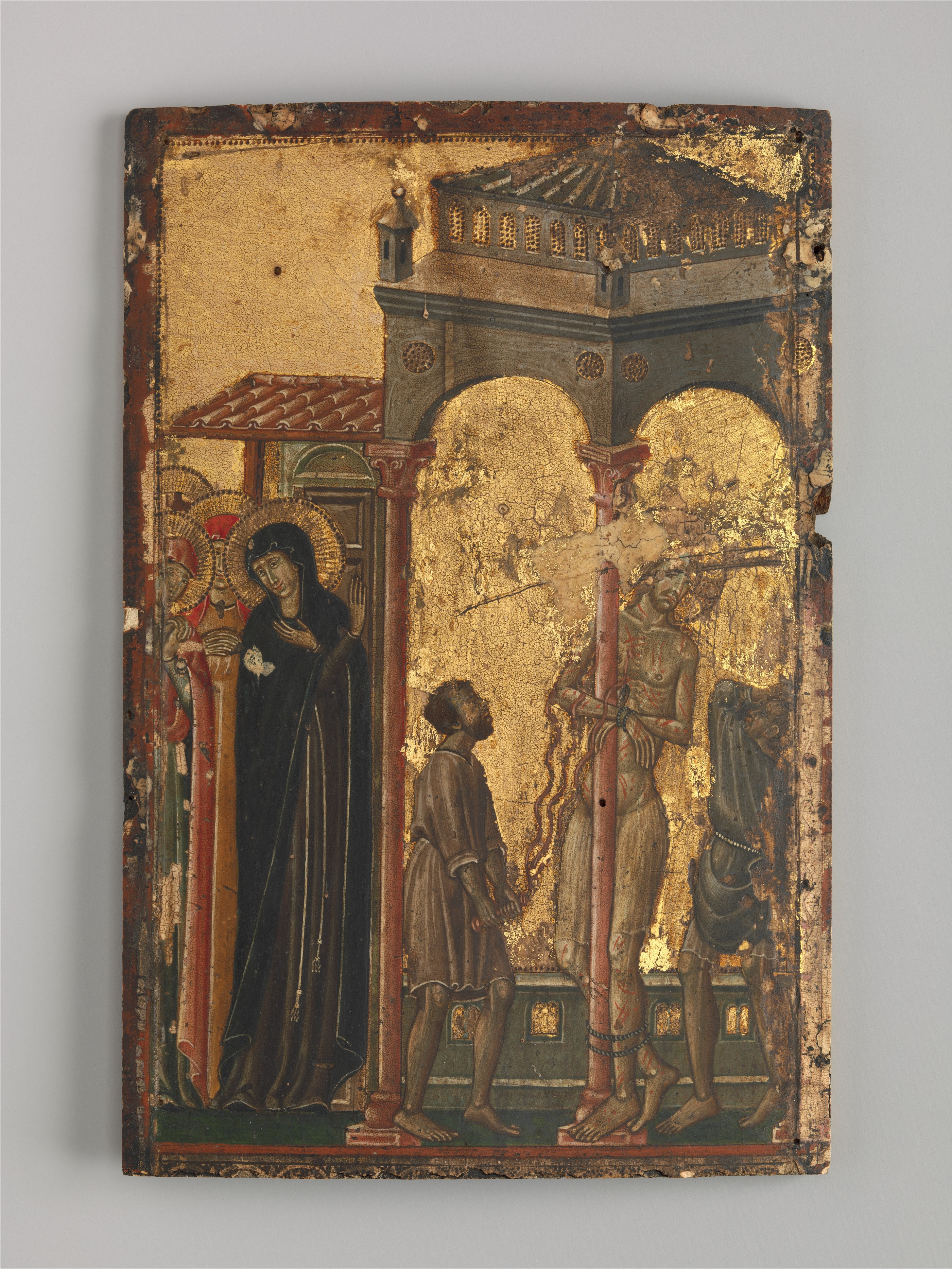 Master of Forlì (Italian, Romagna, active first half 14th century)The Flagellation, first half 14th centuryItalian, Romagna,Tempera on wood, gold ground; Overall: 7 3/4 x 5 1/4 in. (19.7 x 13.3 cm); Painted Surface (excluding painted borders): 7 3/8 x 4 5/8 in. (18.7 x 11.7 cm)The Metropolitan Museum of Art, New York, Robert Lehman Collection, 1975 (1975.1.79)